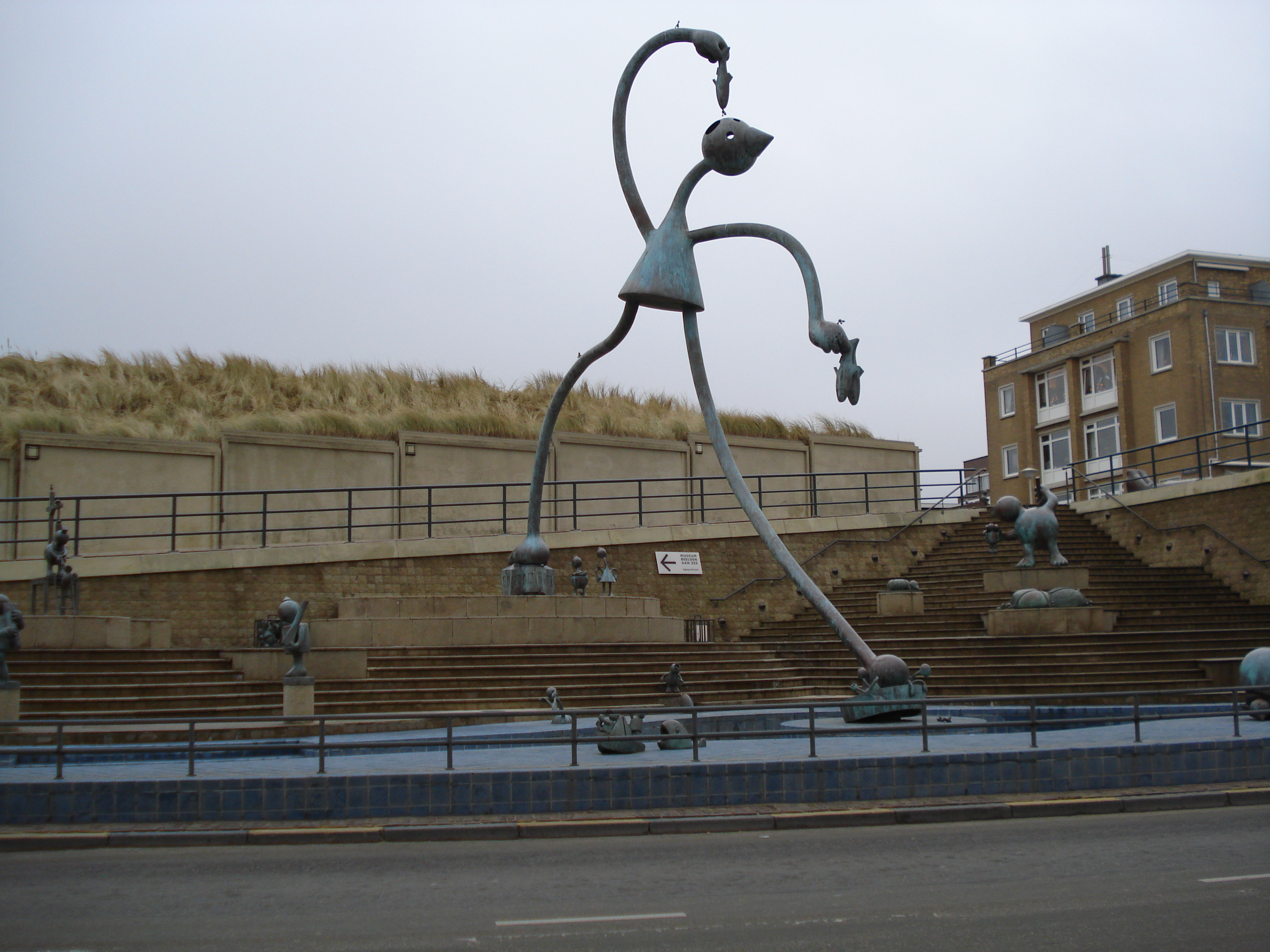 Sculpture The Herringeater by Tom Otterness in The Hague/The Netherlands